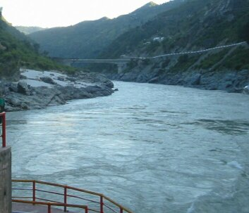 The confluence of the Bhagirathi (coming in from the right) and the Alaknanda at Devprayag. Photographed on March 2003 by me, and I am releasing it hereby to the public domain. User:Mukerjee 09:45, 29 March 2006 (UTC)